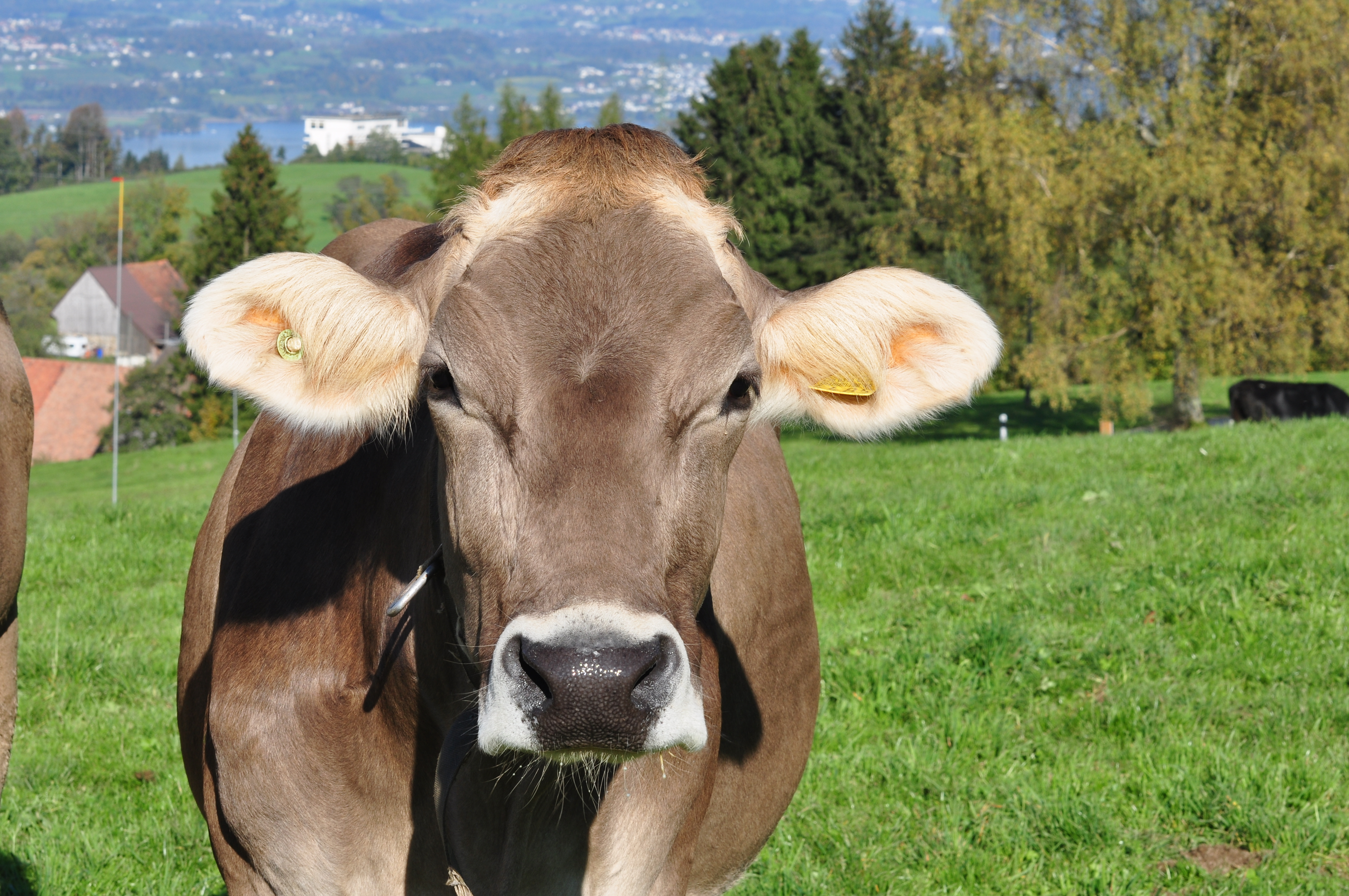 Schindellegi respectively Feusisberg towards Etzel mountain (Switzerland)